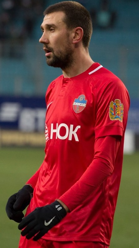 Aleksandr Kutyin with FC Yenisey Krasnoyarsk in a game against FC Dynamo Moscow.